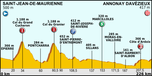 Profil of the 12th stage of the Tour de France 2012